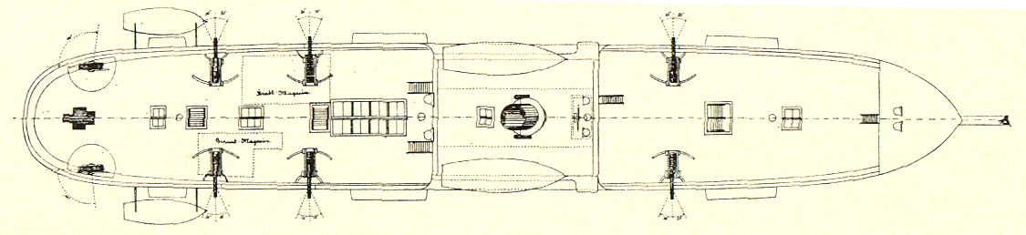 Danish Naval Schooner Fylla. Deck Plan 1890